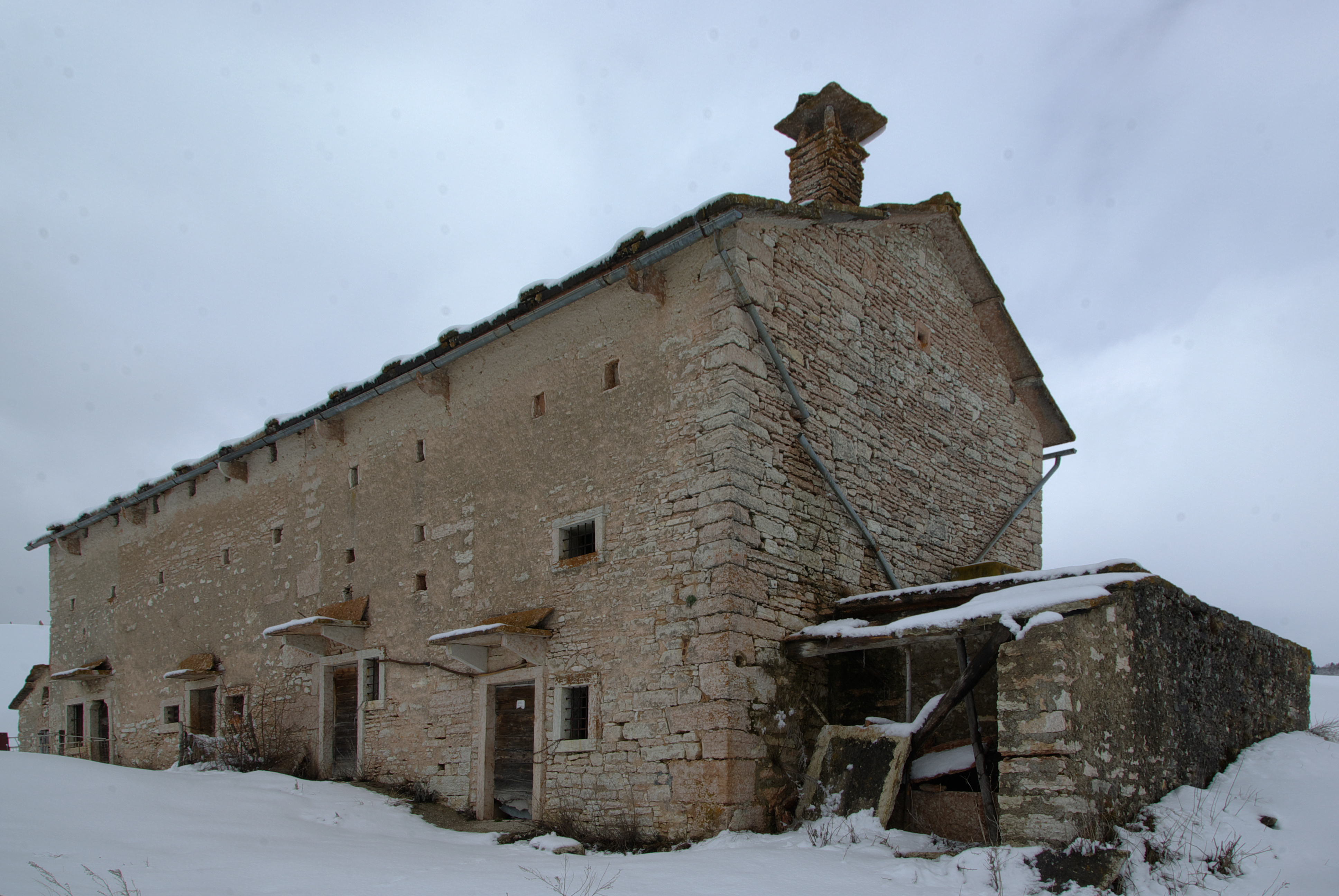 Bosco Chiesanuova (Grietz Dossetti Tinazzo) Lessinia VR Italy 2013-04-01 photo CTG ACA LESSINIA Paolo Villa